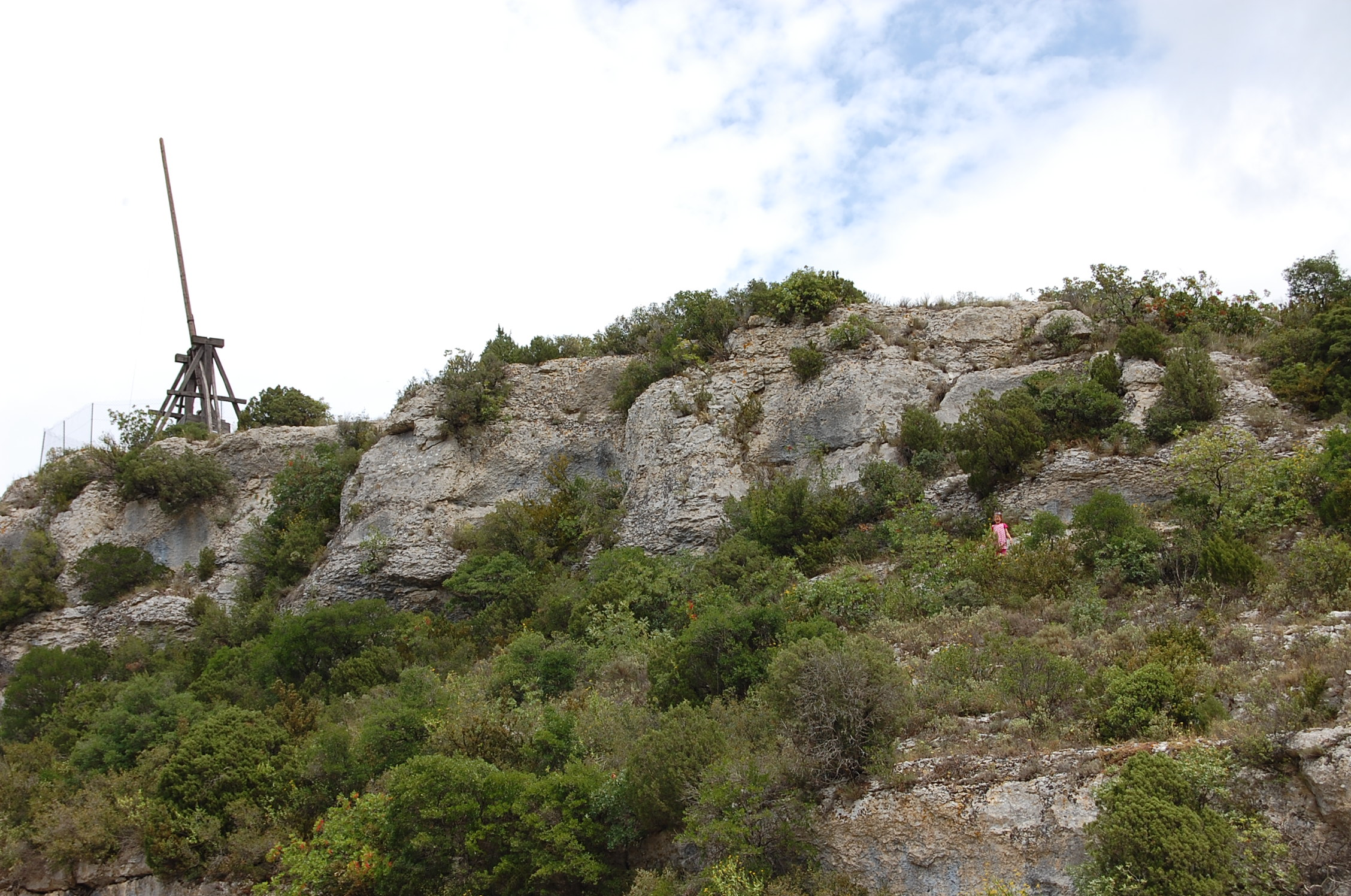 Catapult, Minerve